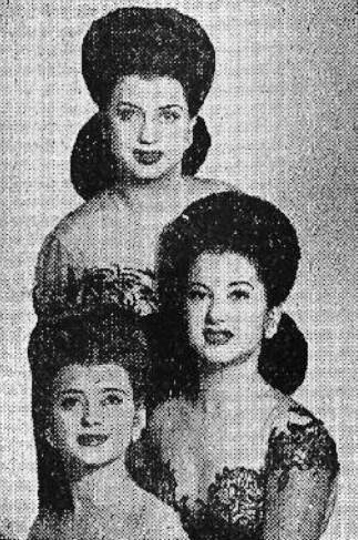 The De Castro Sisters